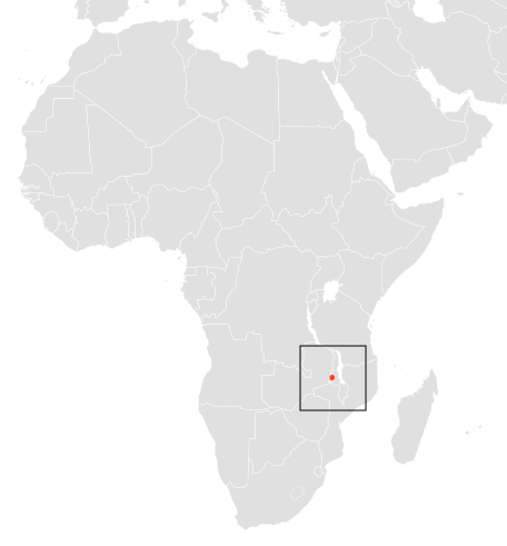 Distribution of Epomophorus anselli